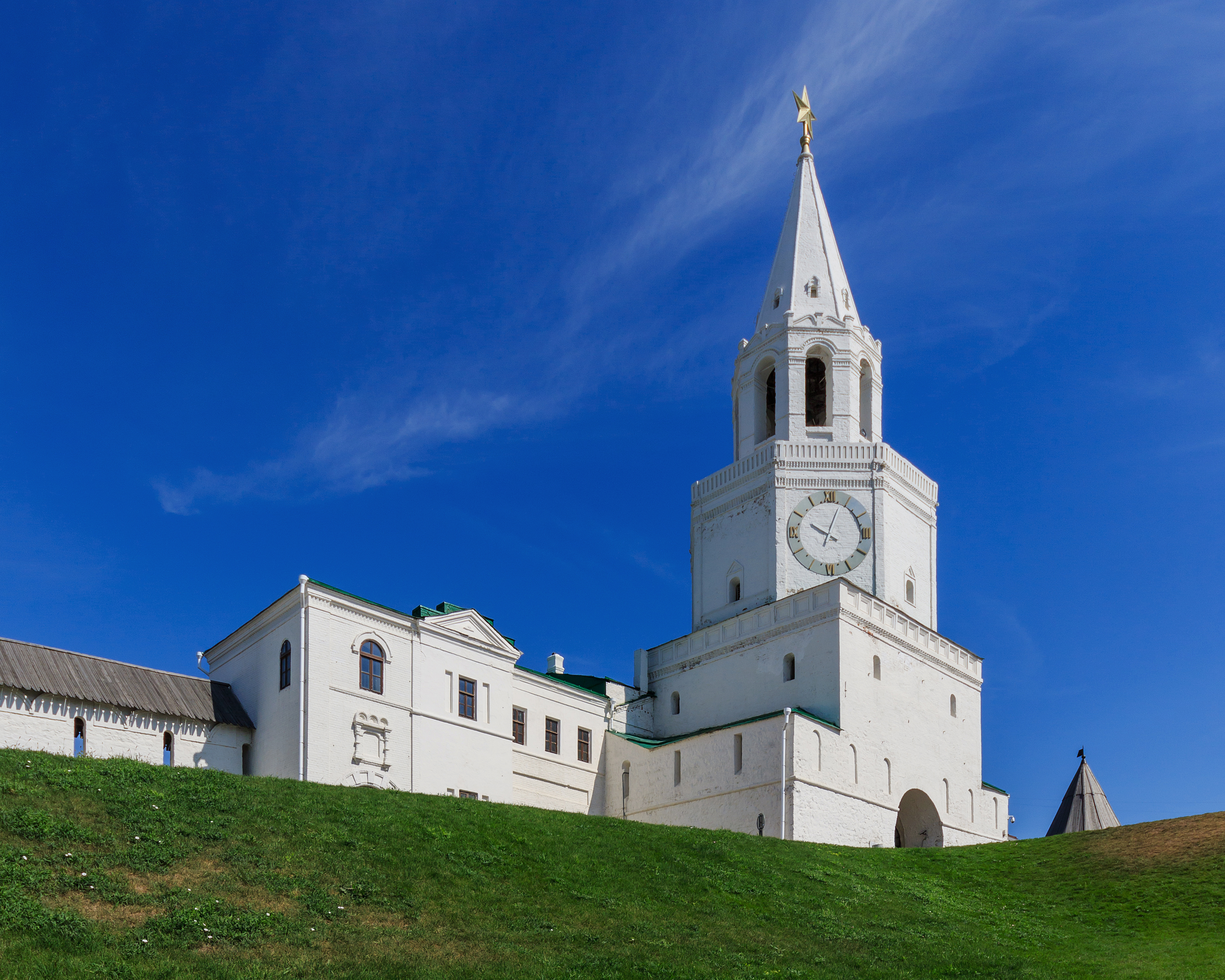 Spasskaya Tower of the Kremlin in Kazan, Russia